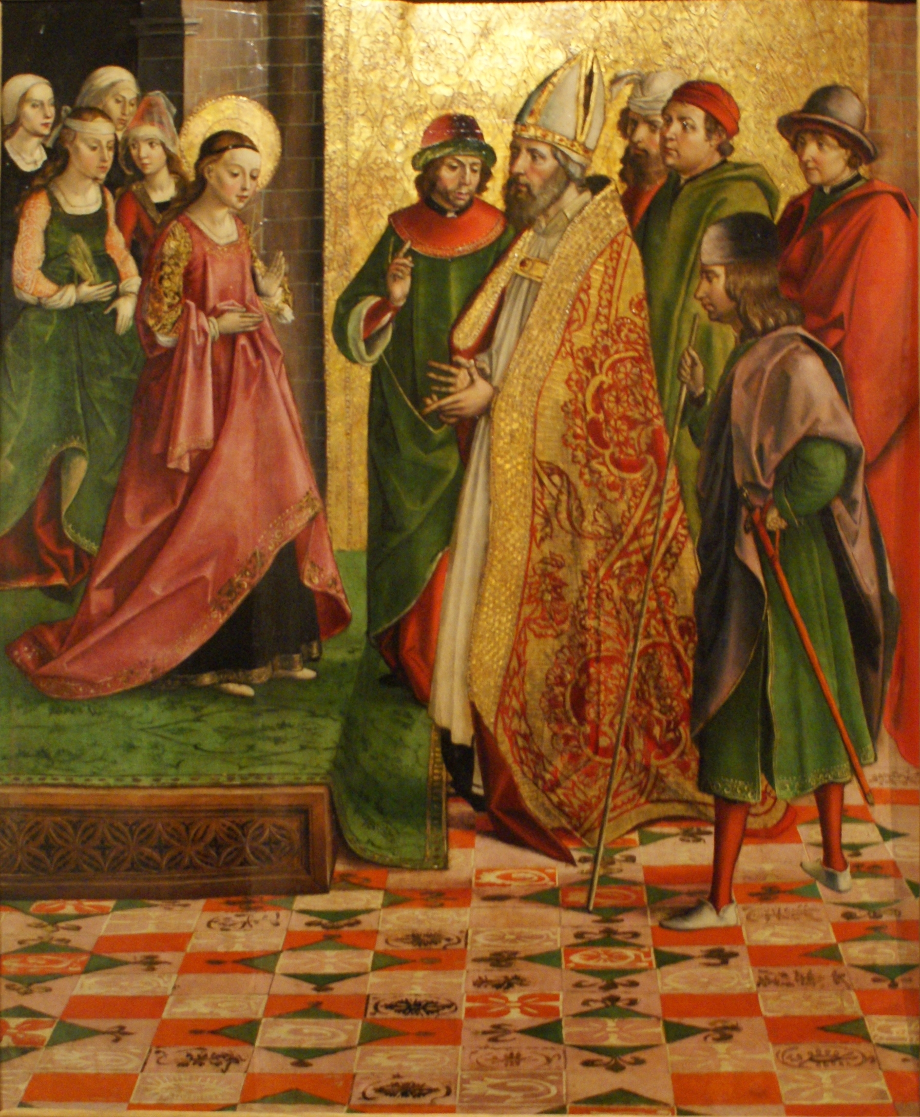 Los Pretendientes de la Virgen (The Suitors of the Virgin)